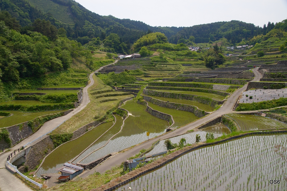 井仁の棚田 01 Terraced paddy fields